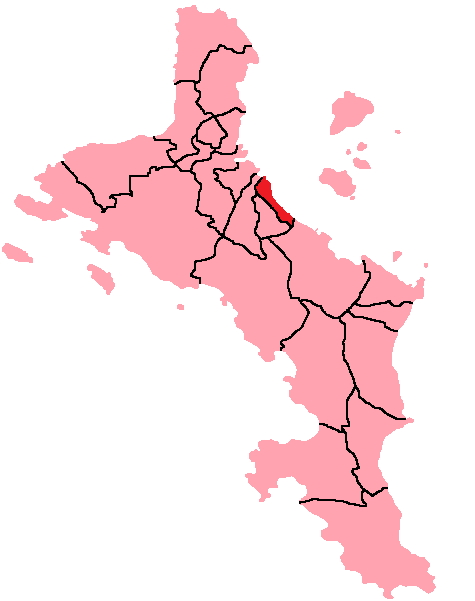 Map of Mahe Island, Seychelles showing Roche Caiman District; created with the GIMP. Made by User:Acntx.